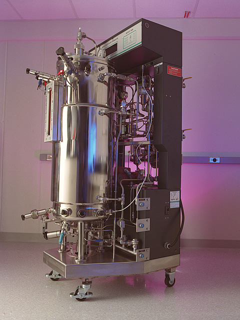 Bioreactor for cellulosic ethanol research. "The mobile pilot-plant fermentor shown here has a 90-L capacity and currently is used to generate large volumes of cells and cell products such as outer-membrane vesicles under highly controlled conditions. Future generations of fermentors will be more highly instrumented with sophisticated imaging and other analytical devices to analyze interactions among cells in microbial communities under an array of conditions."